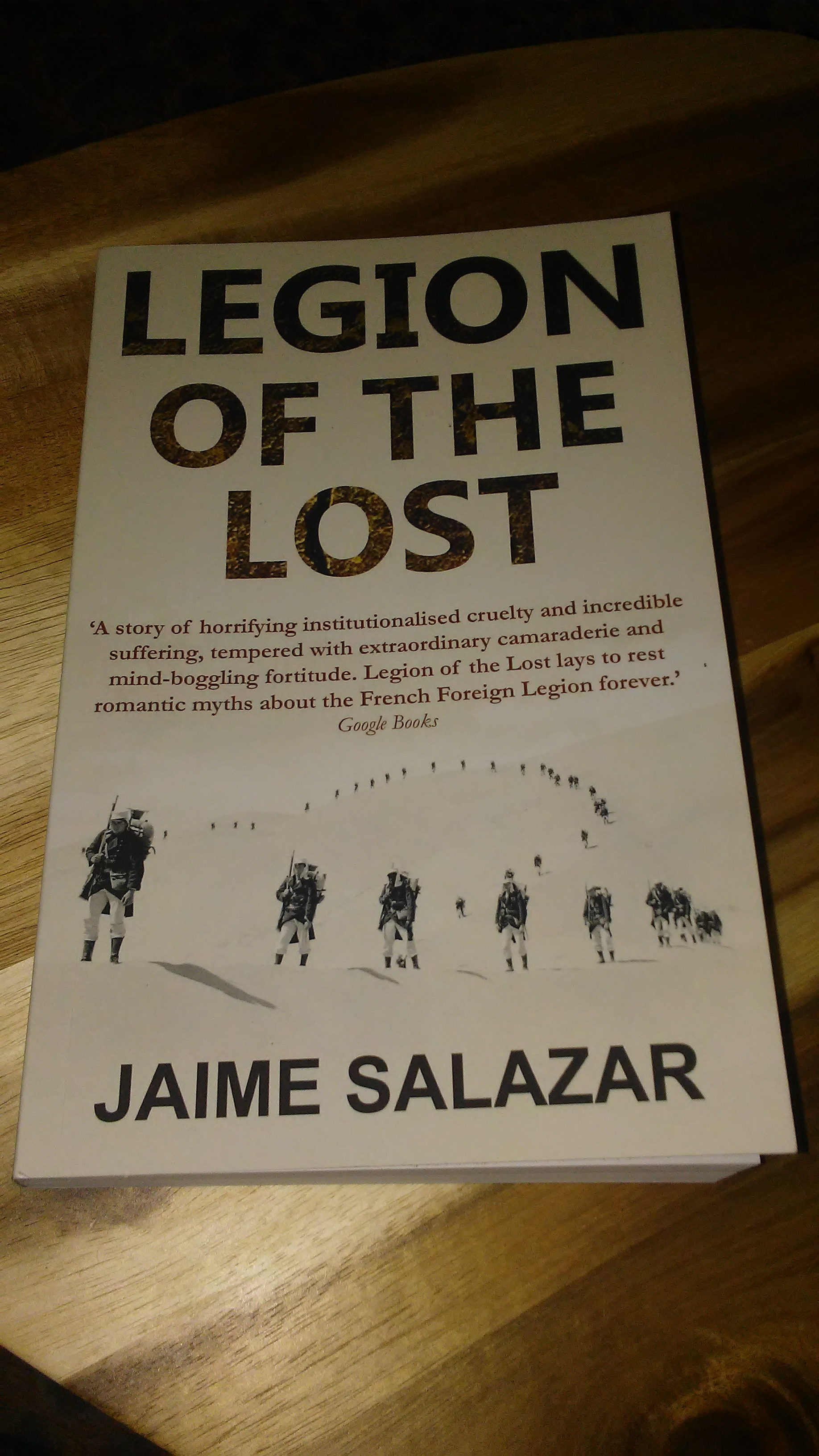 2nd Edition of Legion of the Lost